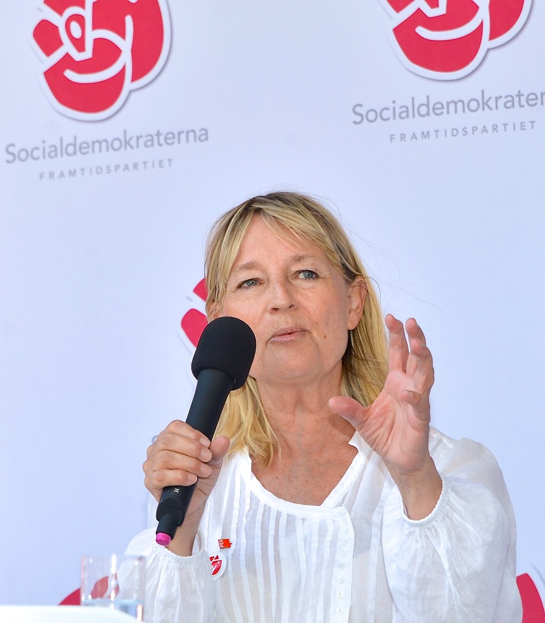 Marita Ulvskog speaks at Sergels torg in Stockholm May 24 2014, before the European election the next day.